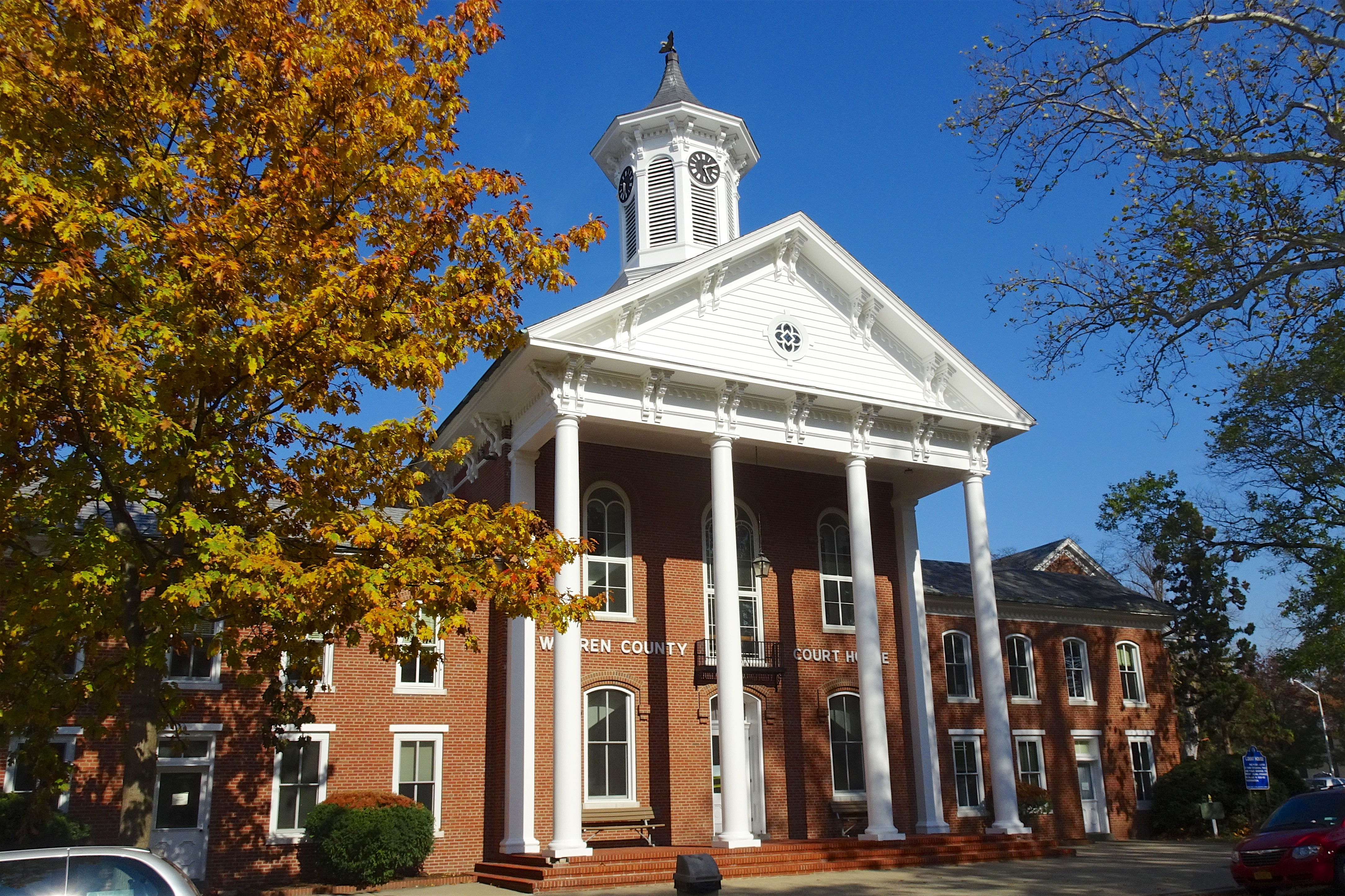 The Warren County Courthouse in Belvidere, New Jersey. Built 1826. Contributing property 180# of the Belvidere Historic District.